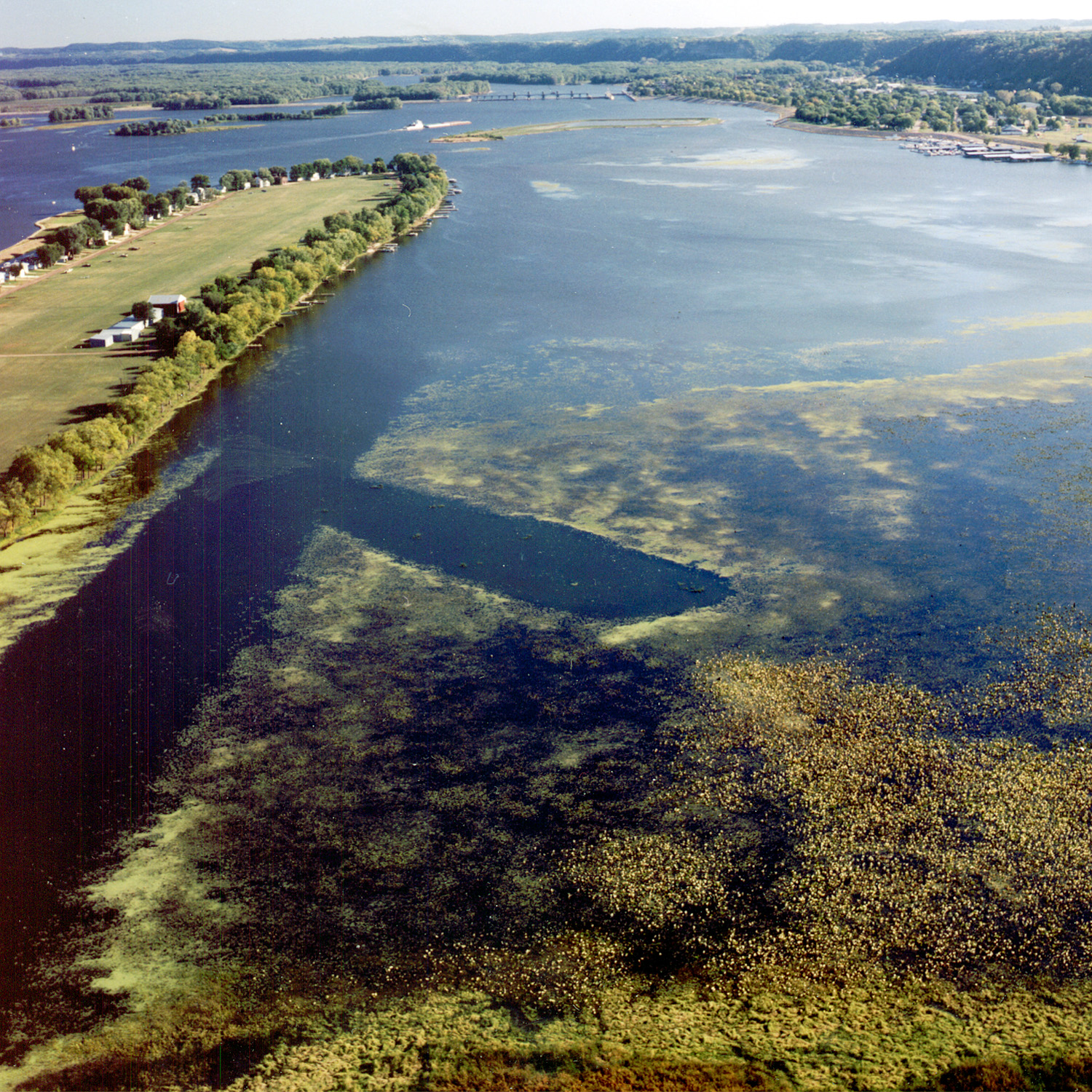 Bussey Lake, a backwater lake off the Mississippi River near Guttenberg, Iowa, USA. The U.S. Army Corps of Engineers has dredged parts of the lake to provide increased wildlife habitat diversity.